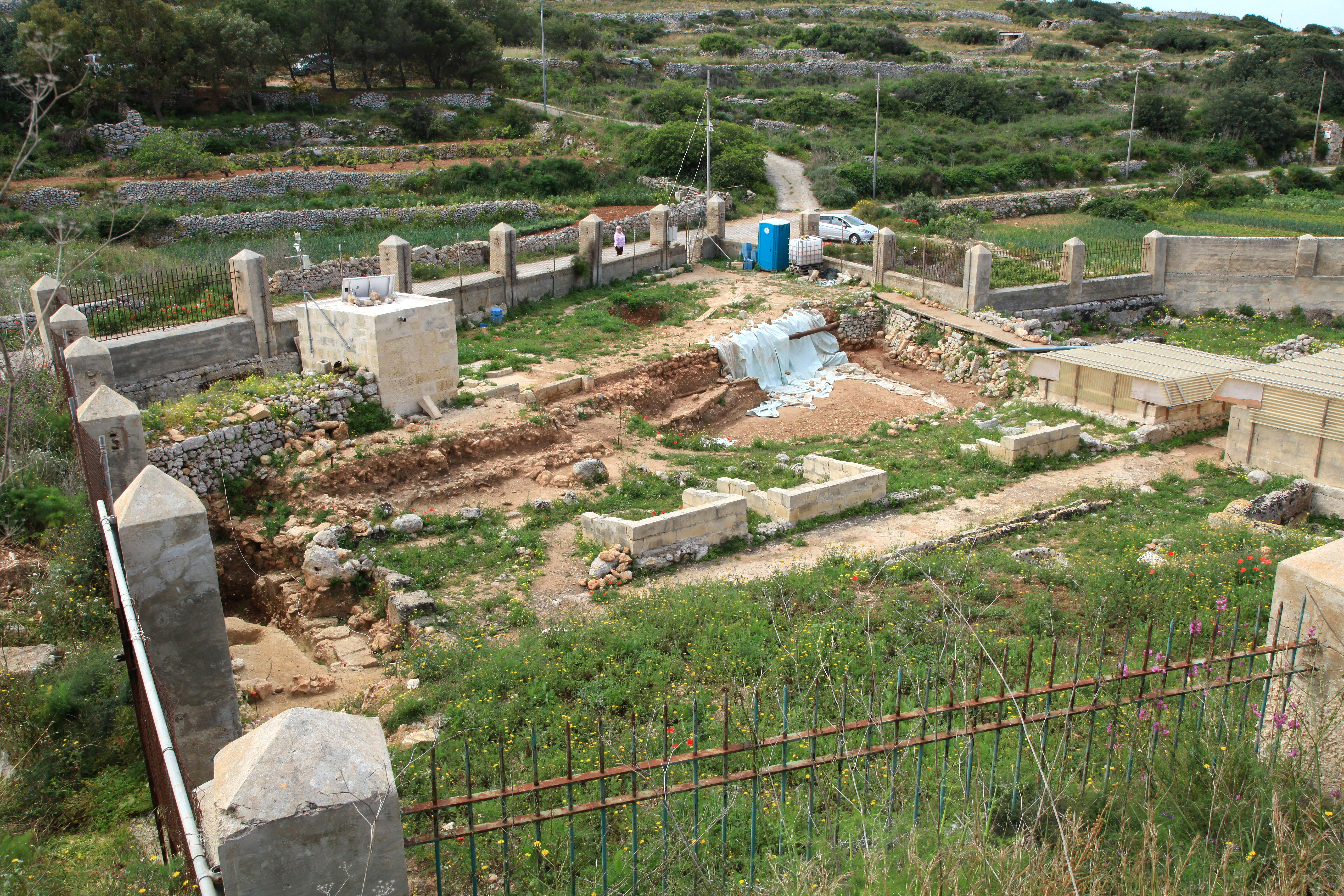 Għajn Tuffieħa Roman Baths, Triq Għajn Tuffieħa in Mġarr, Malta